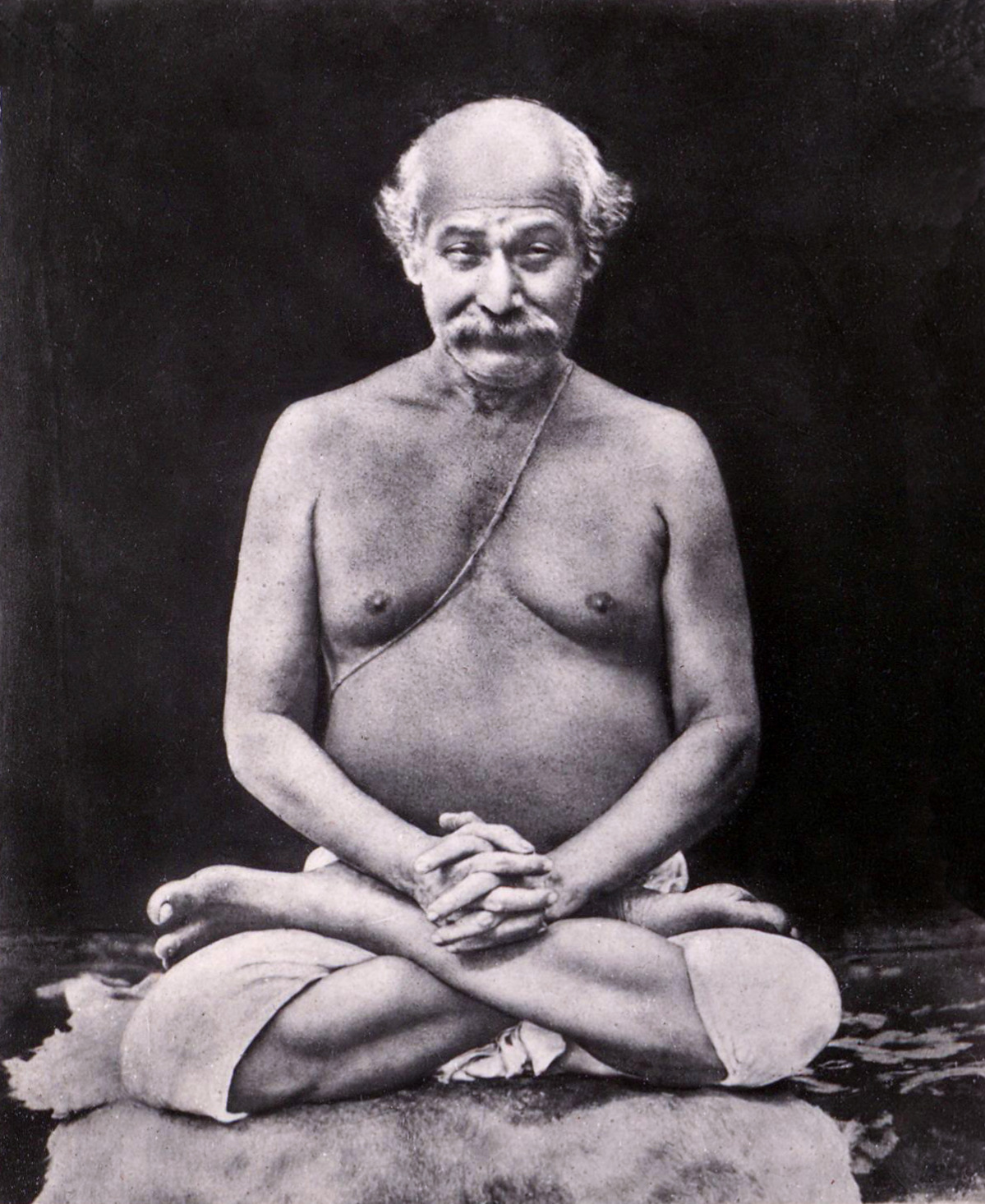 Lahiri Mahasaya, Yogi and Guru from India.